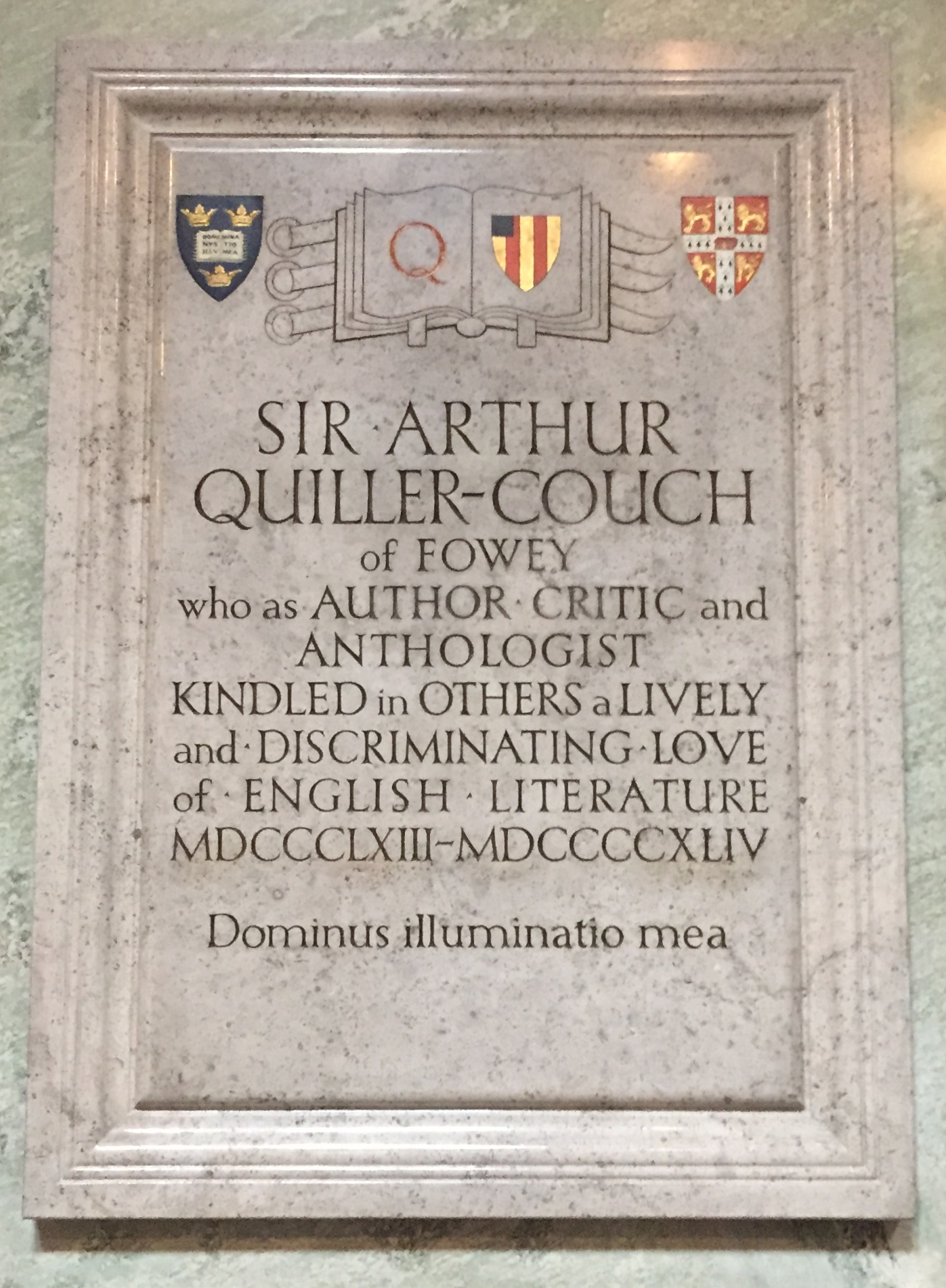 Sir Arthur Quiller-Couch of Fowey who as author, critic and anthologist kindled in others a lively and discriminating love of English literature. MDCCCLXIII-MDCCCCXLIV Dominus illuminatio mea